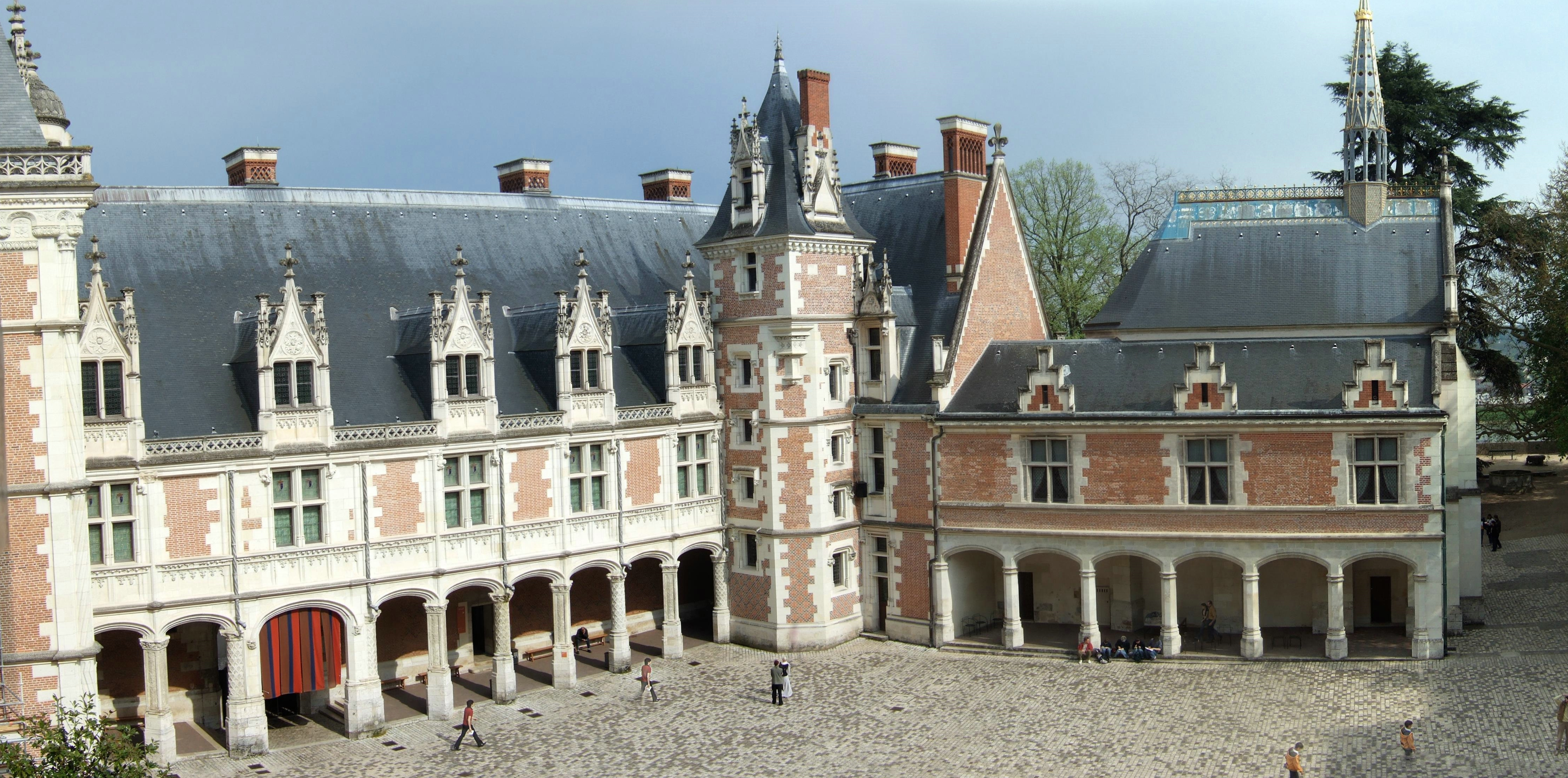 Interior view of the Louis XII wing of the Château de Blois, including the chapel at the right of the picture. Panoramic shot of about 4 photos. Mind the clones! Taken by me.